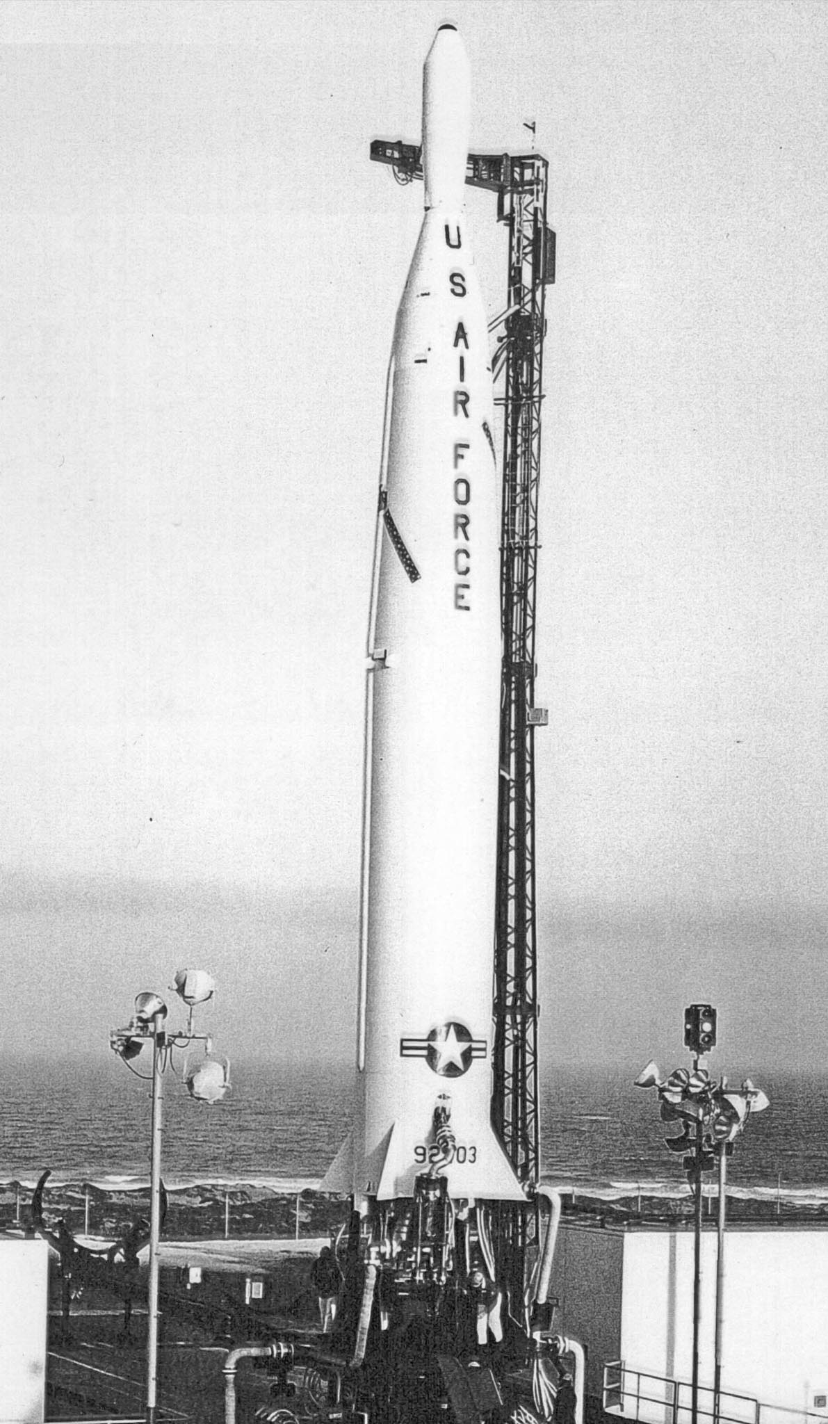 Thor MG-18 launch vehicle with DMSP Block 4A F3 satellite.